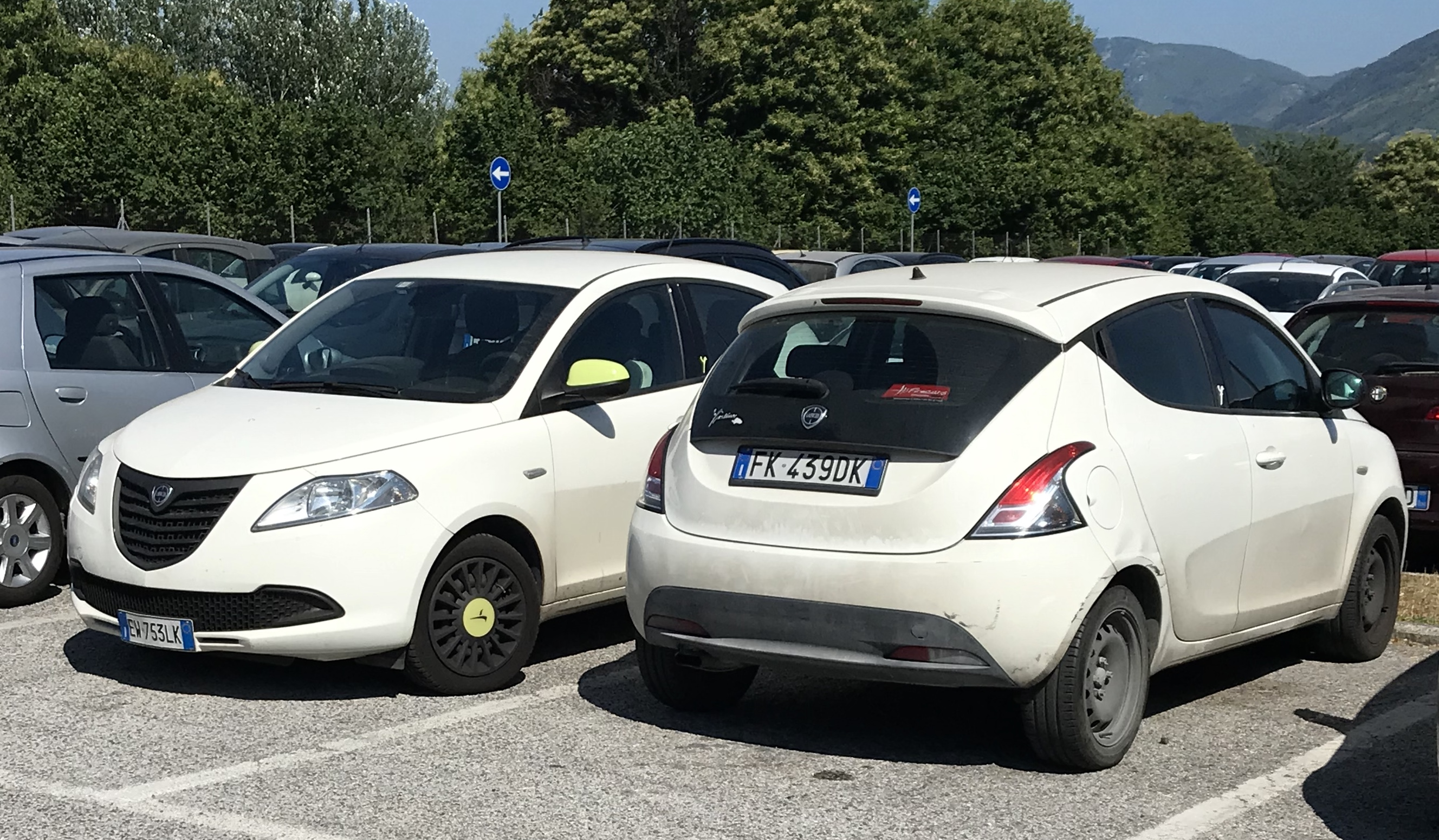 Lancia Ypsilon 846